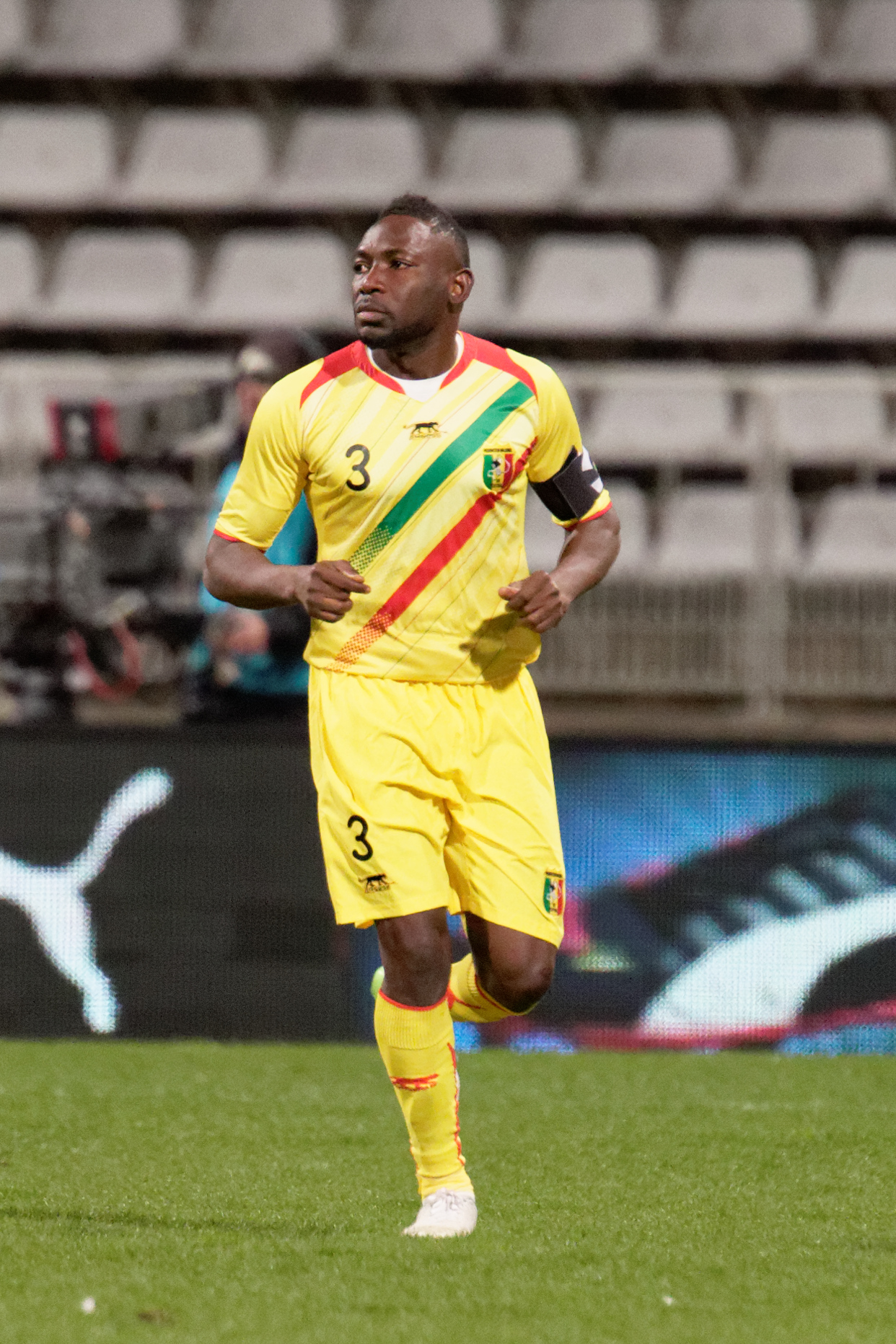 Mali vs Ghana, exhibition game at Paris, 31st March 2015.